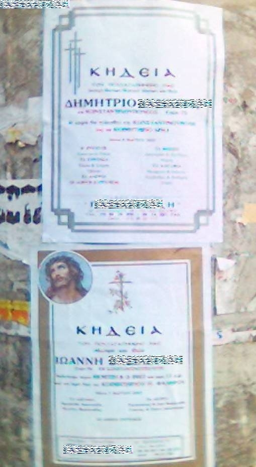 Death or funeral announcement